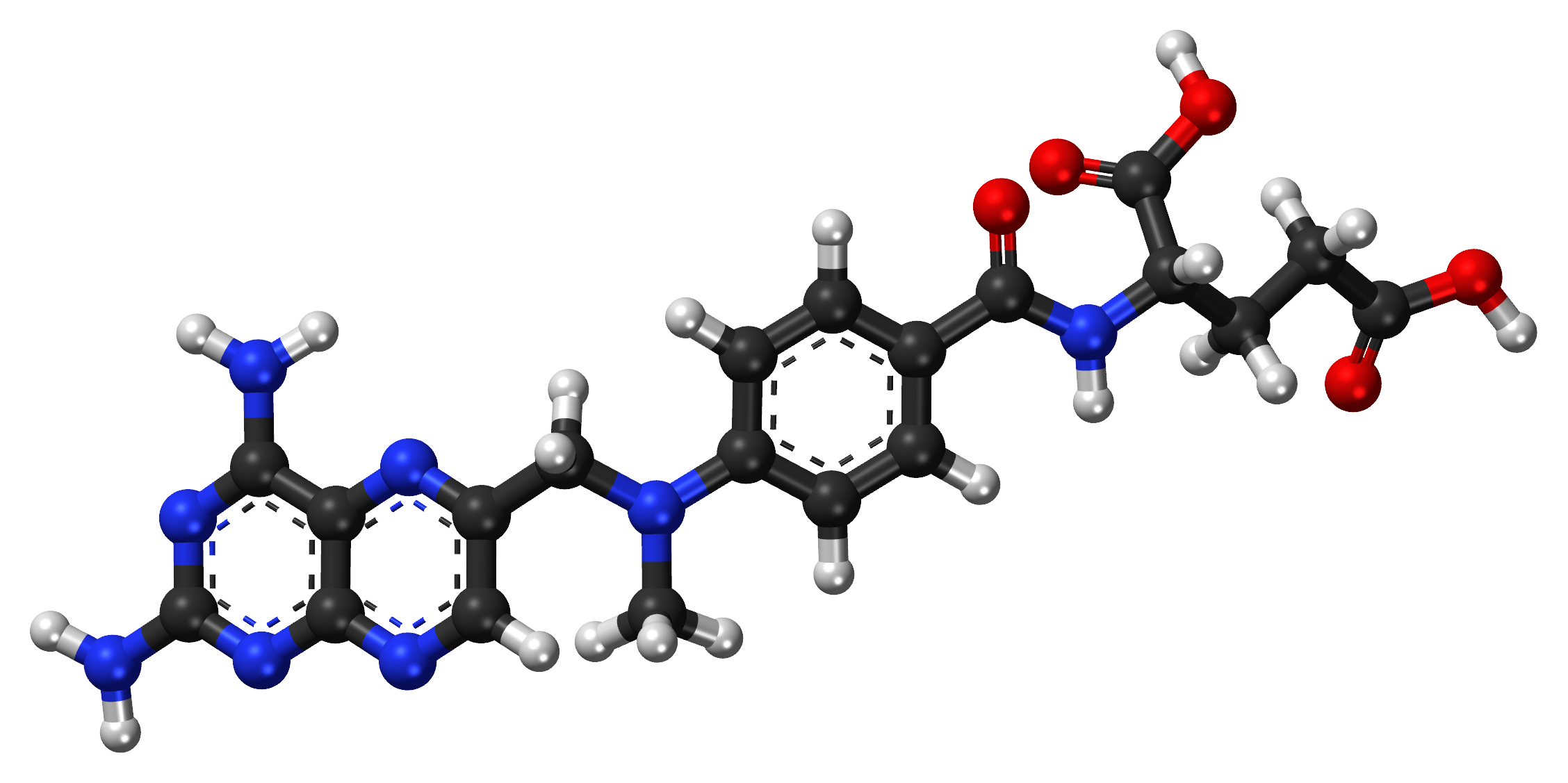 Ball-and-stick model of methotrexate—an antimetabolite and antifolate drug. Created using Accelrys DS Visualizer 4.1 and Adobe Photoshop CC 2014. Colors used: Carbon, C: dark grey Hydrogen, H: light grey Nitrogen, N: blue Oxygen, O: red This image was created with Discovery Studio Visualizer. This image was created with Adobe Photoshop.